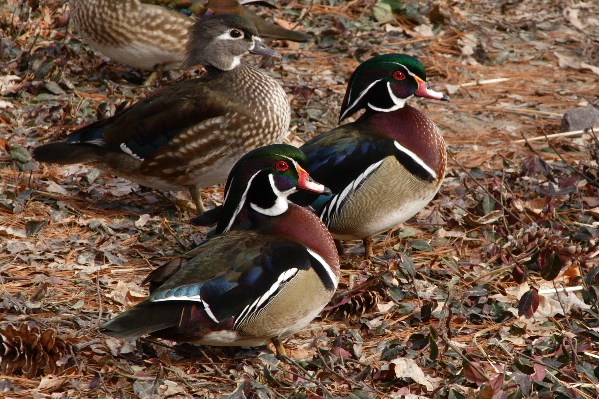 Aix sponsa (Wood Duck), St. Louis Zoo